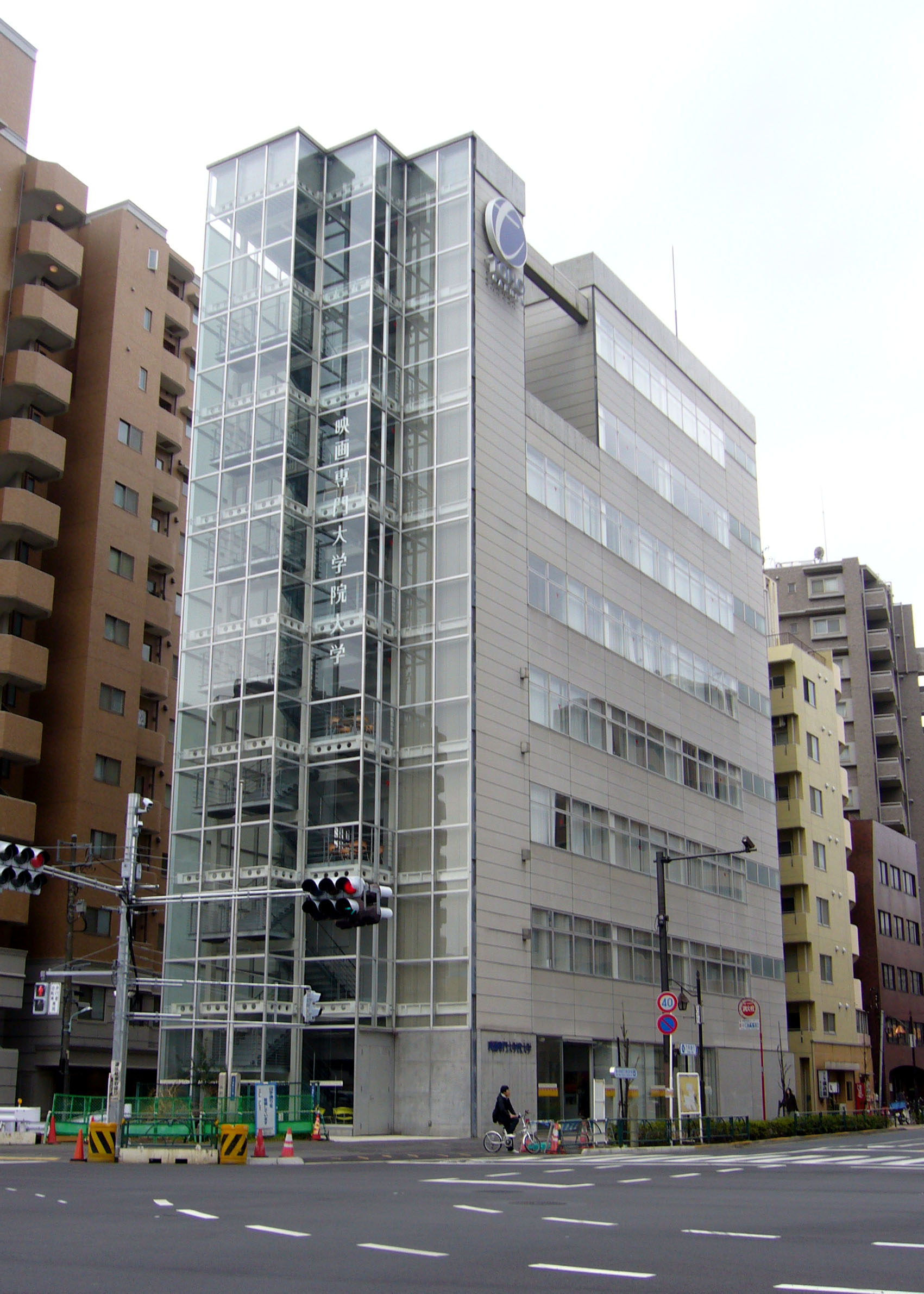 Graduate School of Film Producing (Tokyo, Japan)